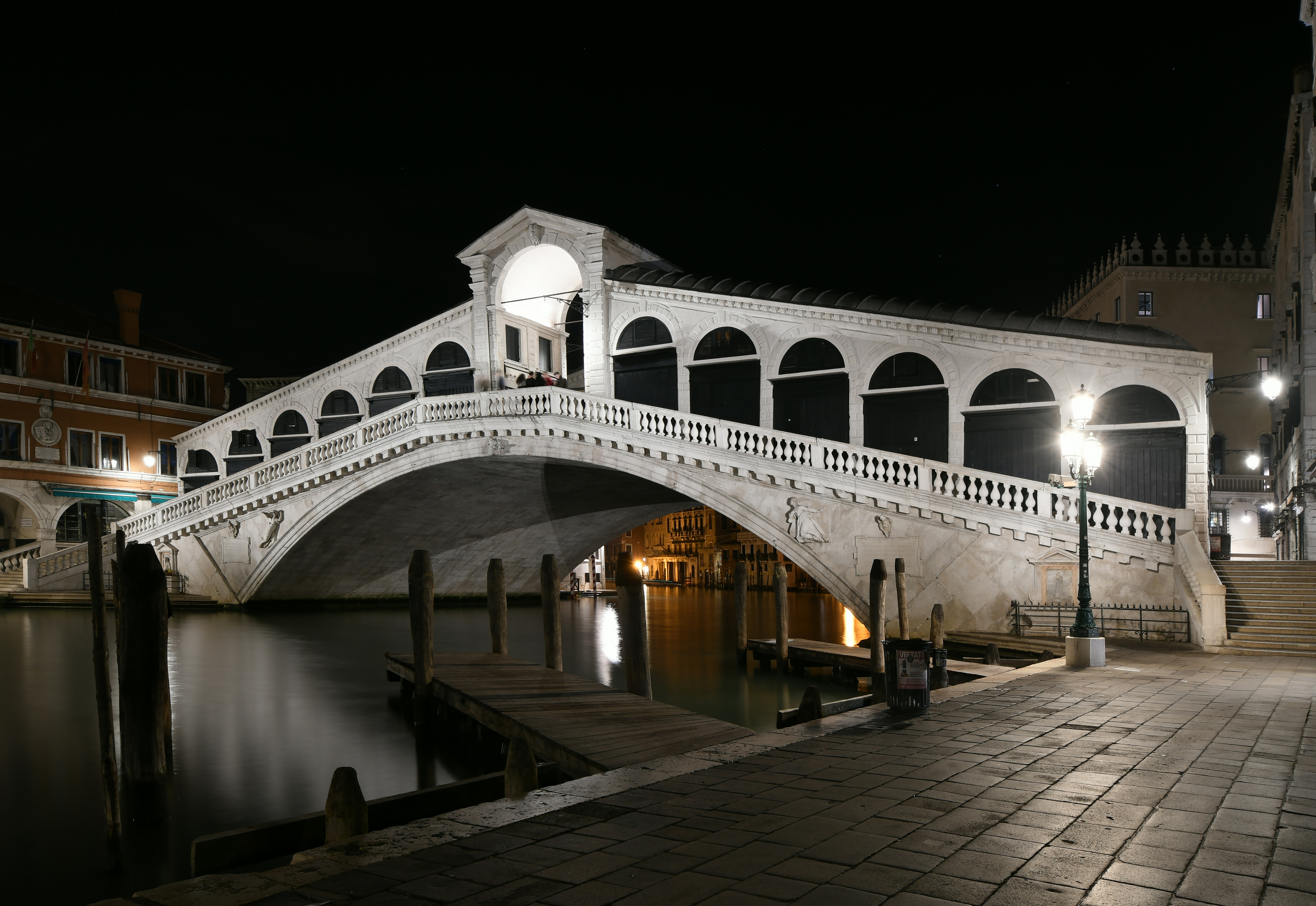 Rialto Bridge at night